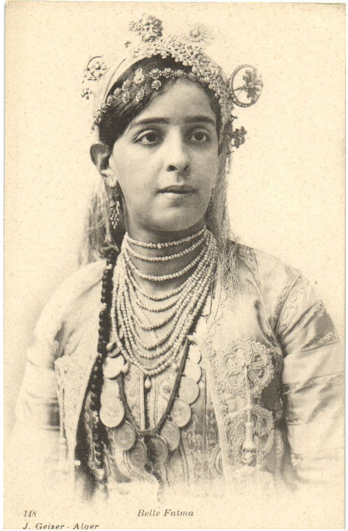 Miss Fatma, on an old postcards